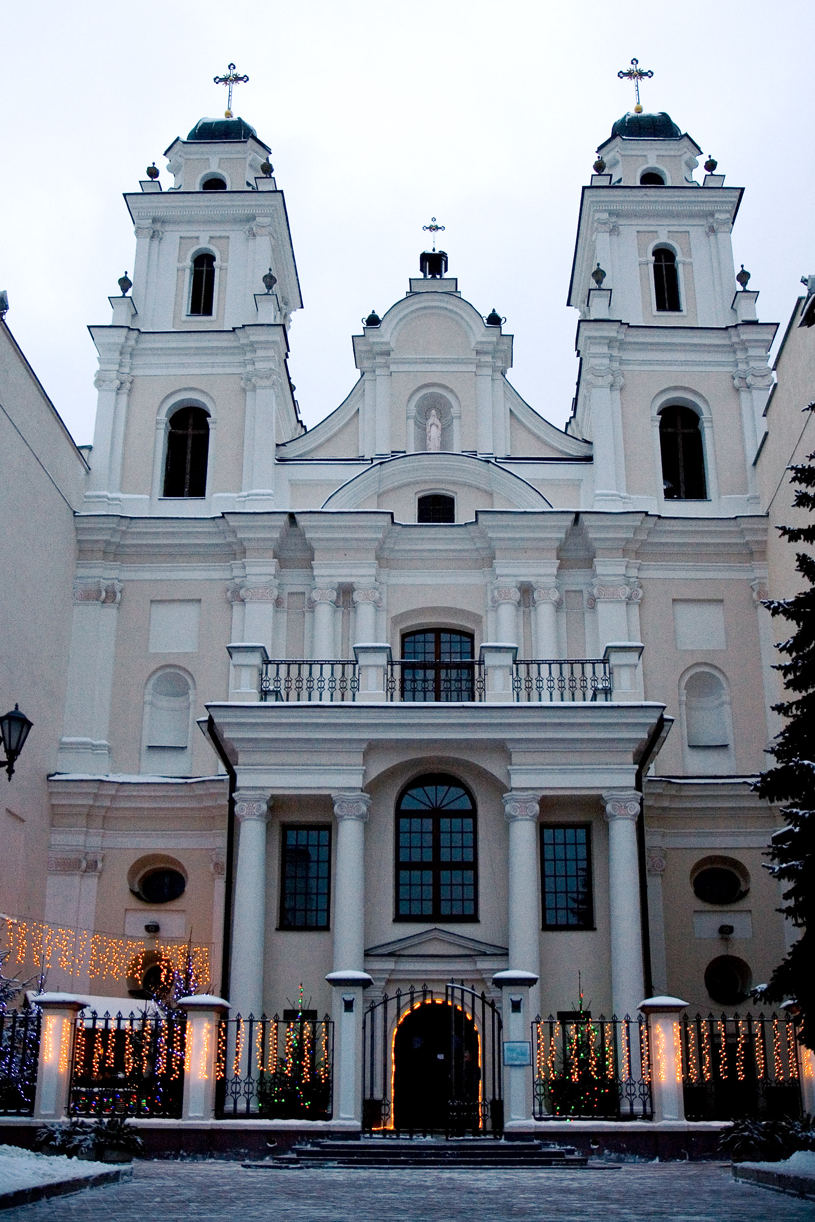 Archcathedral of Name of the Blessed Virgin Mary, Minsk, Belarus